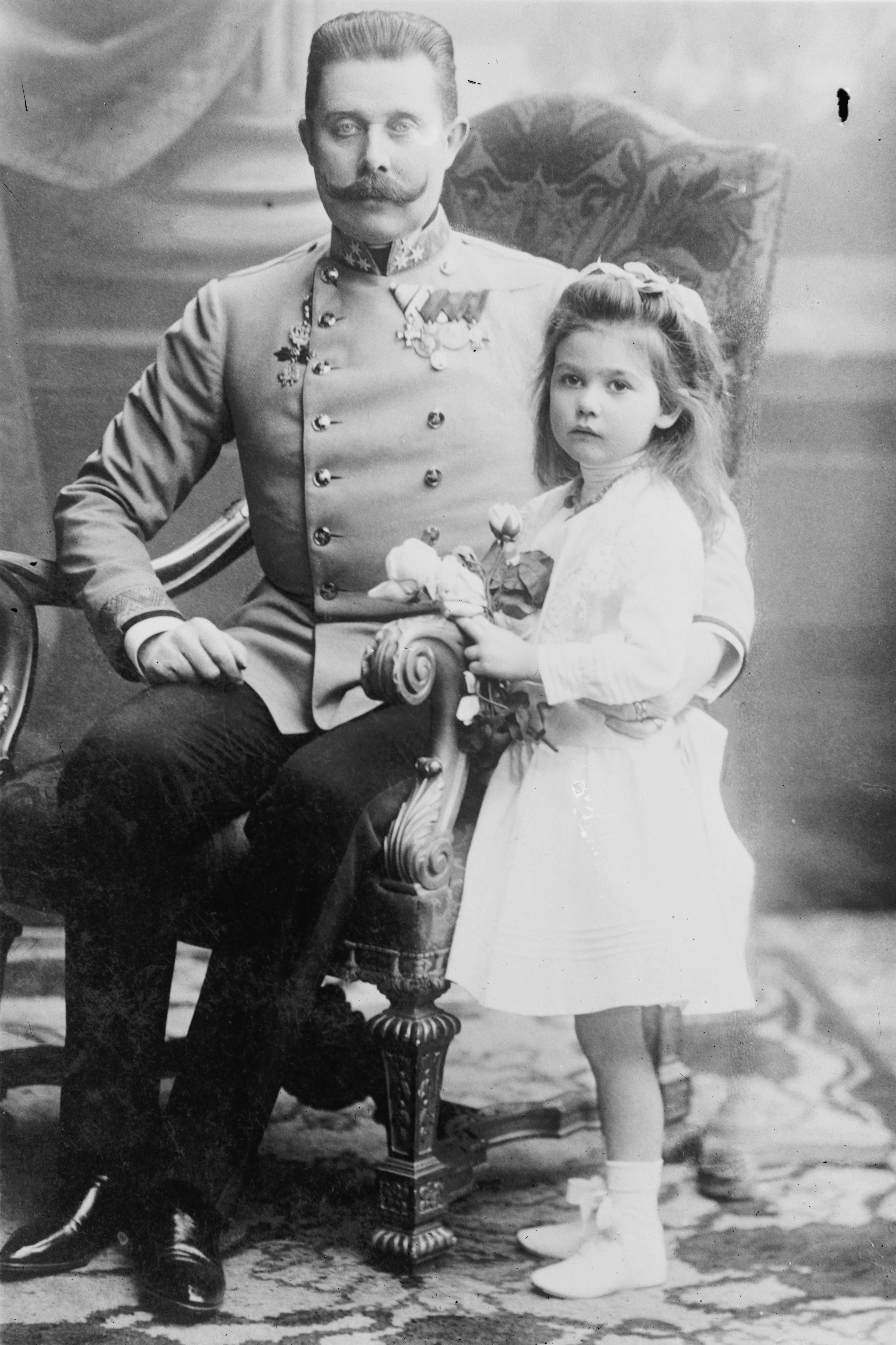 Archduke Franz Ferdinand of Austria (1863-1914) with his daughter Princess Sophie von Hohenberg (1901-1990)